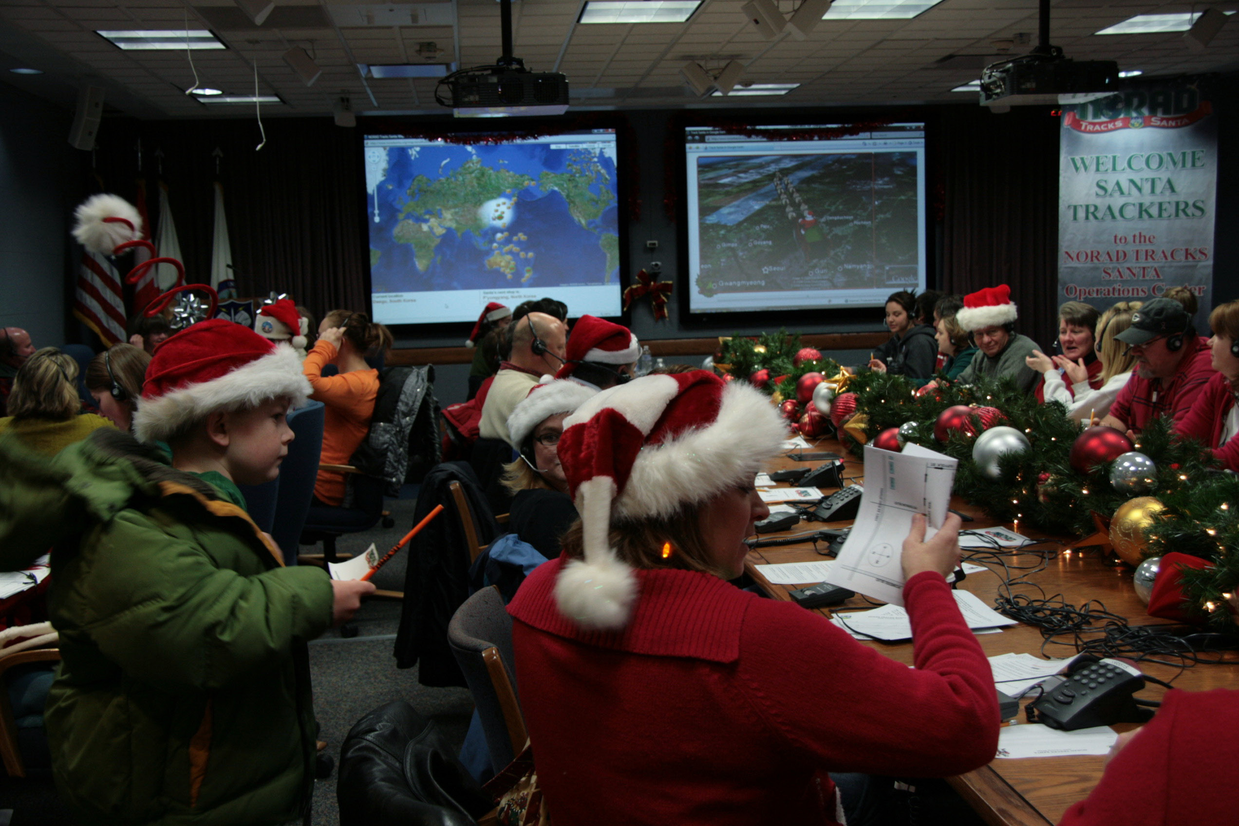 More than 1,200 volunteers answer phone calls and emails in seven different languages from children around the globe asking about Santa on this day. The North American Aerospace Defense Command is a bi-national command of U.S. and Canada responsible for aerospace warning and control and maritime warning in North America.